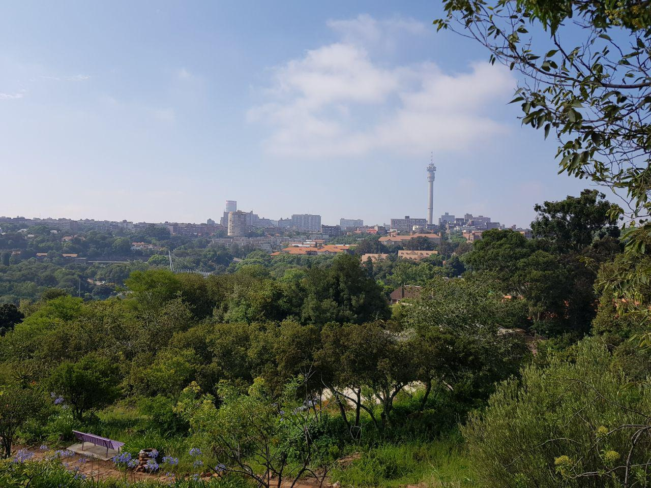 View of Johannesburg CBD from The Wilds municipal Nature Reserve, Hillbrow Tower can be seen in the back